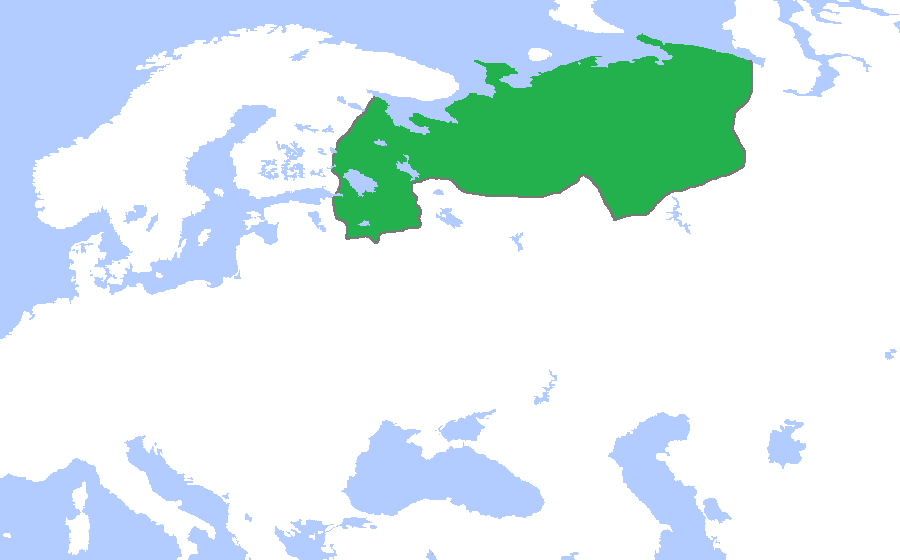 Locator map of the Novgorod Republic, c. 1400. (Partially based on Atlas of World History (2007) - The World 1300-1400, map)